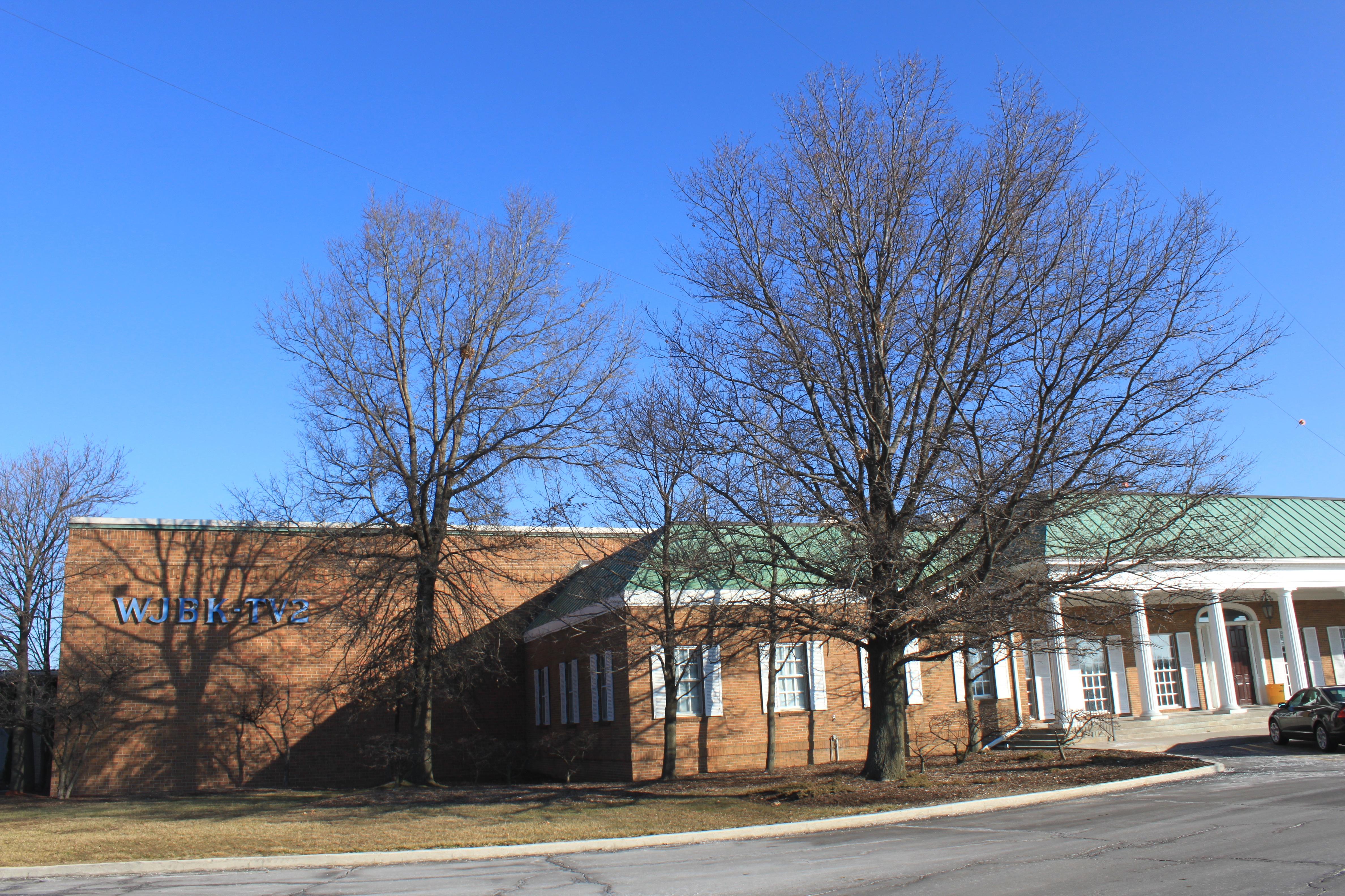 WJBK-TV2 studios, 16550 West Nine Mile Road, Southfield, Michigan.